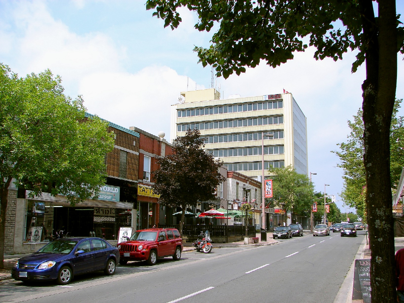 Pitt Street in Cornwall, Ontario, Canada